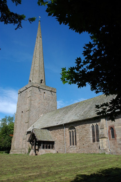 The nave, west tower and spire of St Peter's parish church, Herefordshire, seen from the southeast